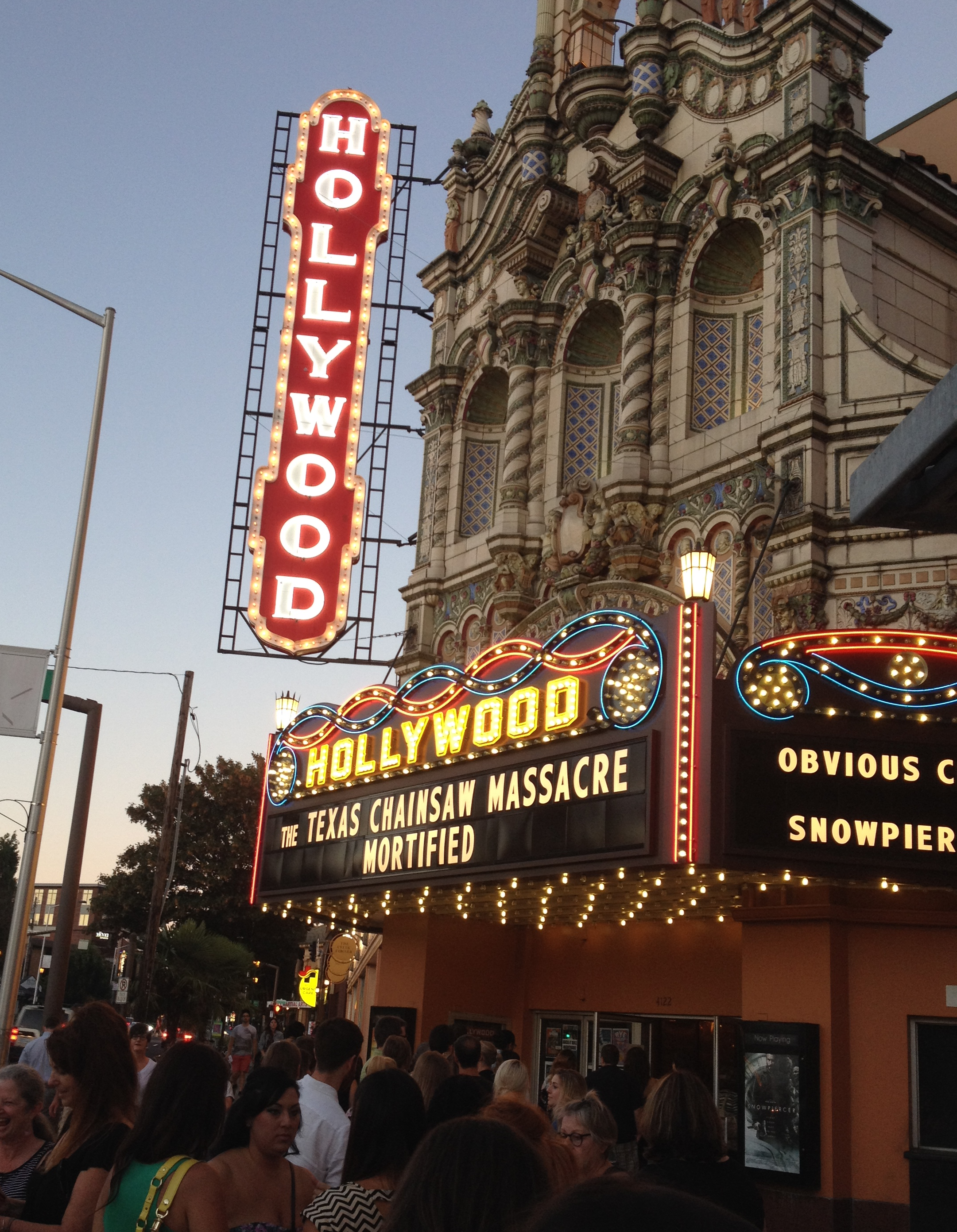 Marquee at the Hollywood Theater in Portland, OR promoting The Texas Chain Saw Massacre